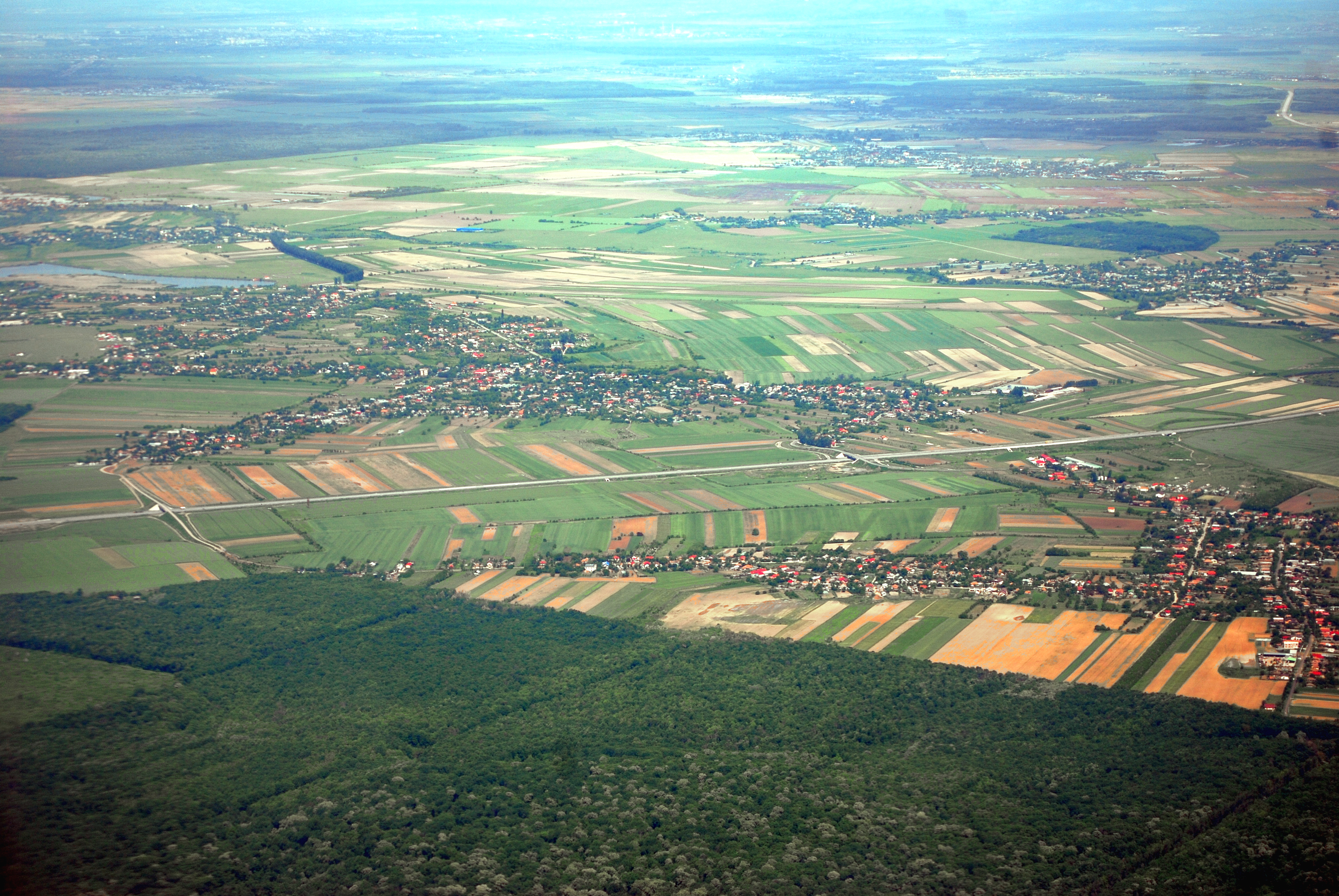 Romanian A3 motorway seen from an airplane around Gruiu, Ilfov County